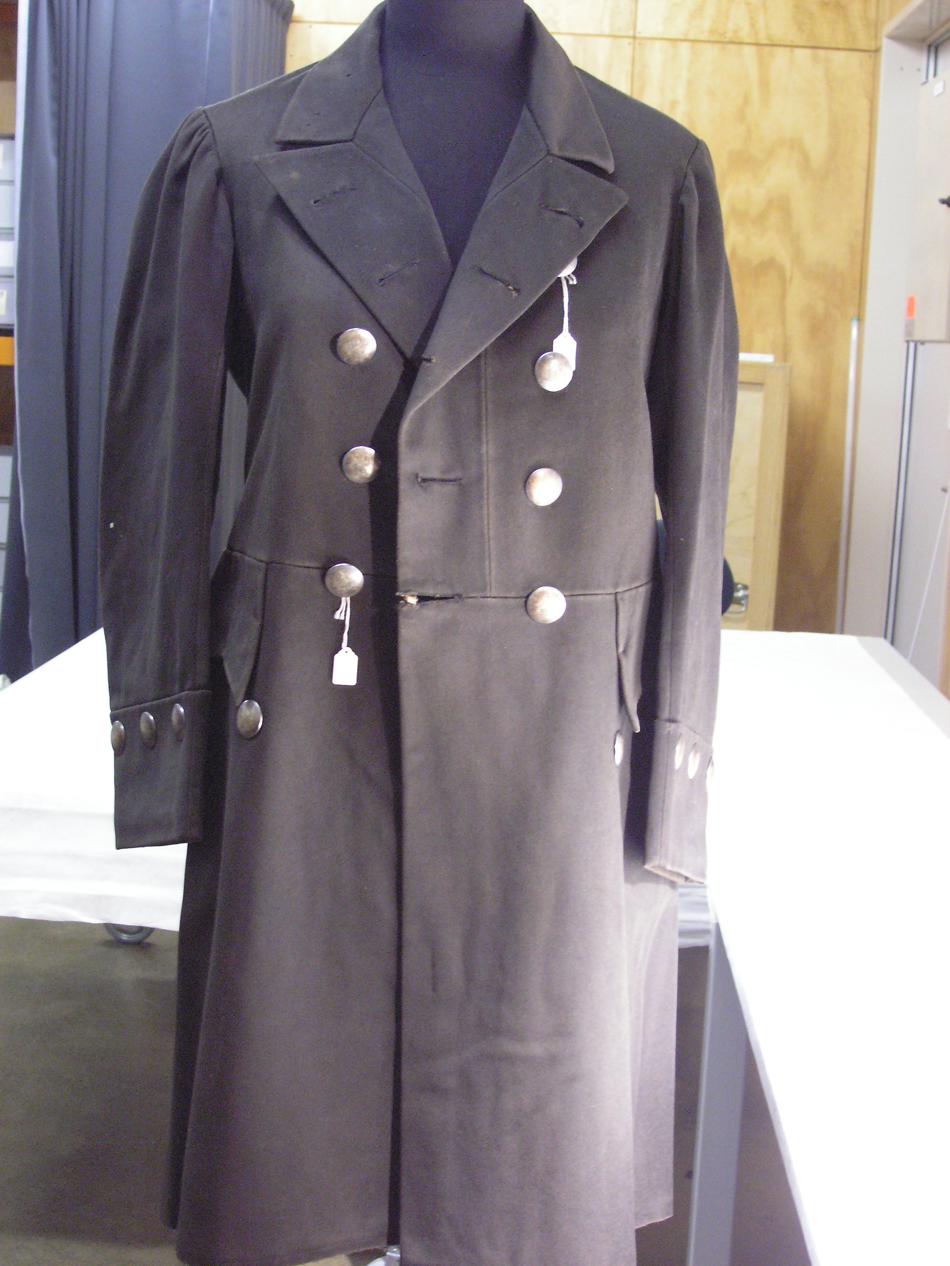 Coat, wool, navy blue serge topcoat, skirted with decorated back vent, double breasted, many silvered metal buttons, lined.